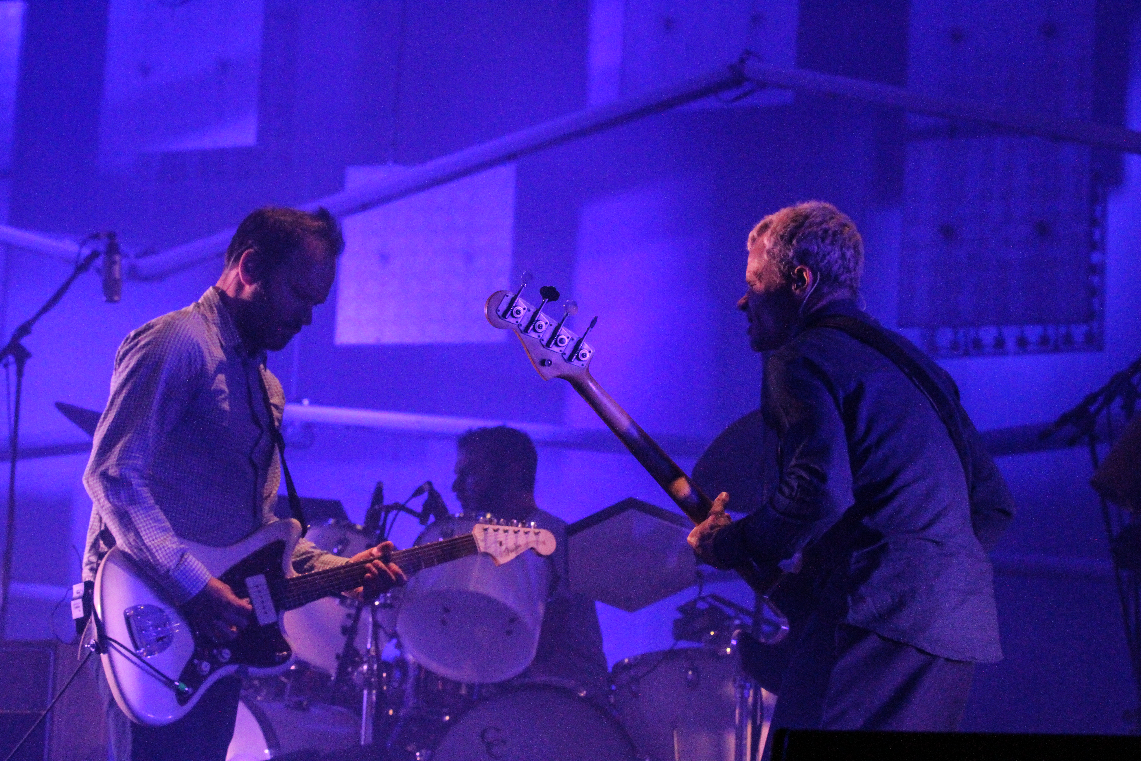 Atoms For Peace performing at Melt! Festival 2013